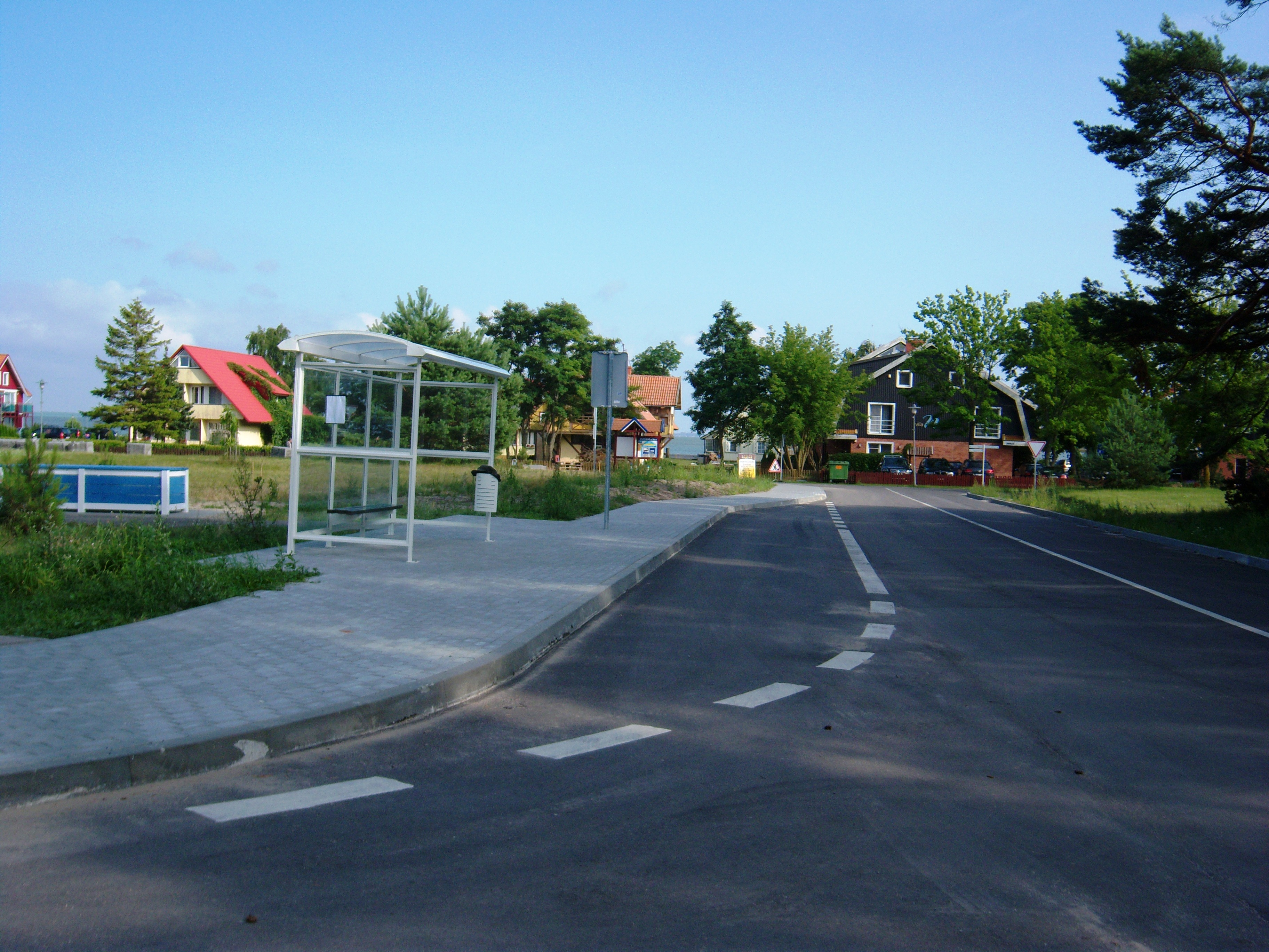 Bus stop, Pervalka, Lithuania